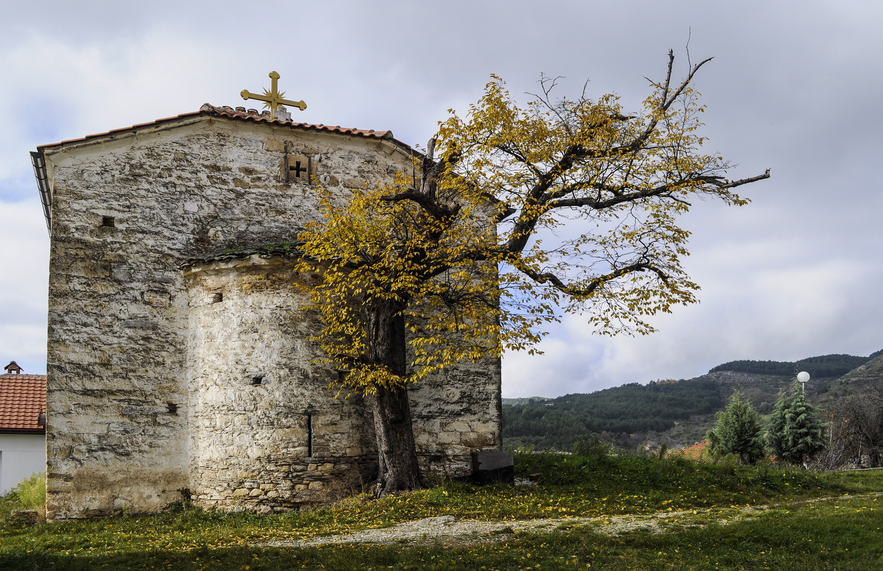 The Church of St. Nicholas in the village of Gorno Sonje, on the southern slopes of Mount Vodno, Skopje region, Macedonia. Ова е фотографија на споменик на културата во Македонија со типски код: A01This is a a photo of a cultural monument in North Macedonia with type id: A01